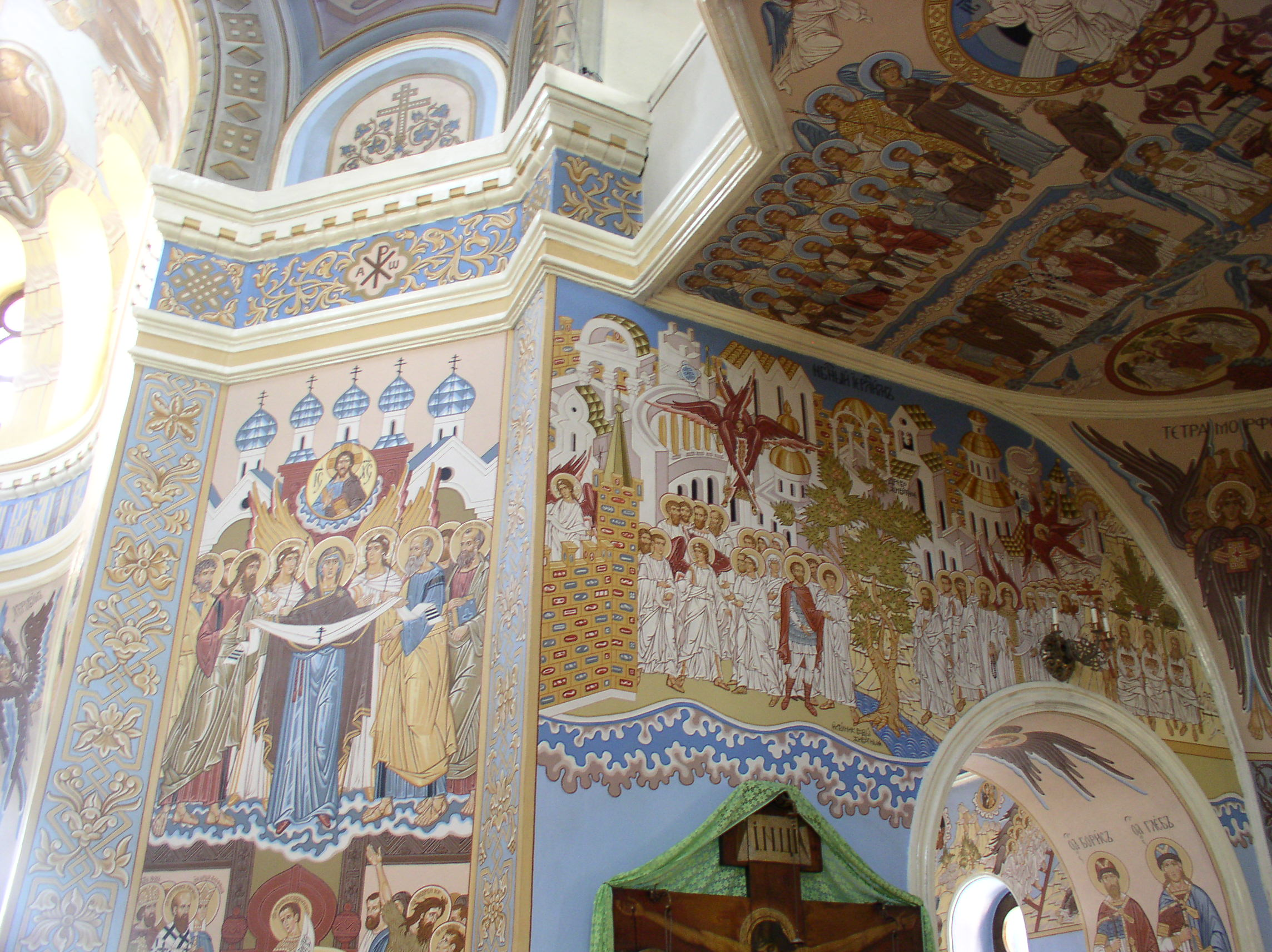 Alexander Nevsky Cathedral in Novosibirsk